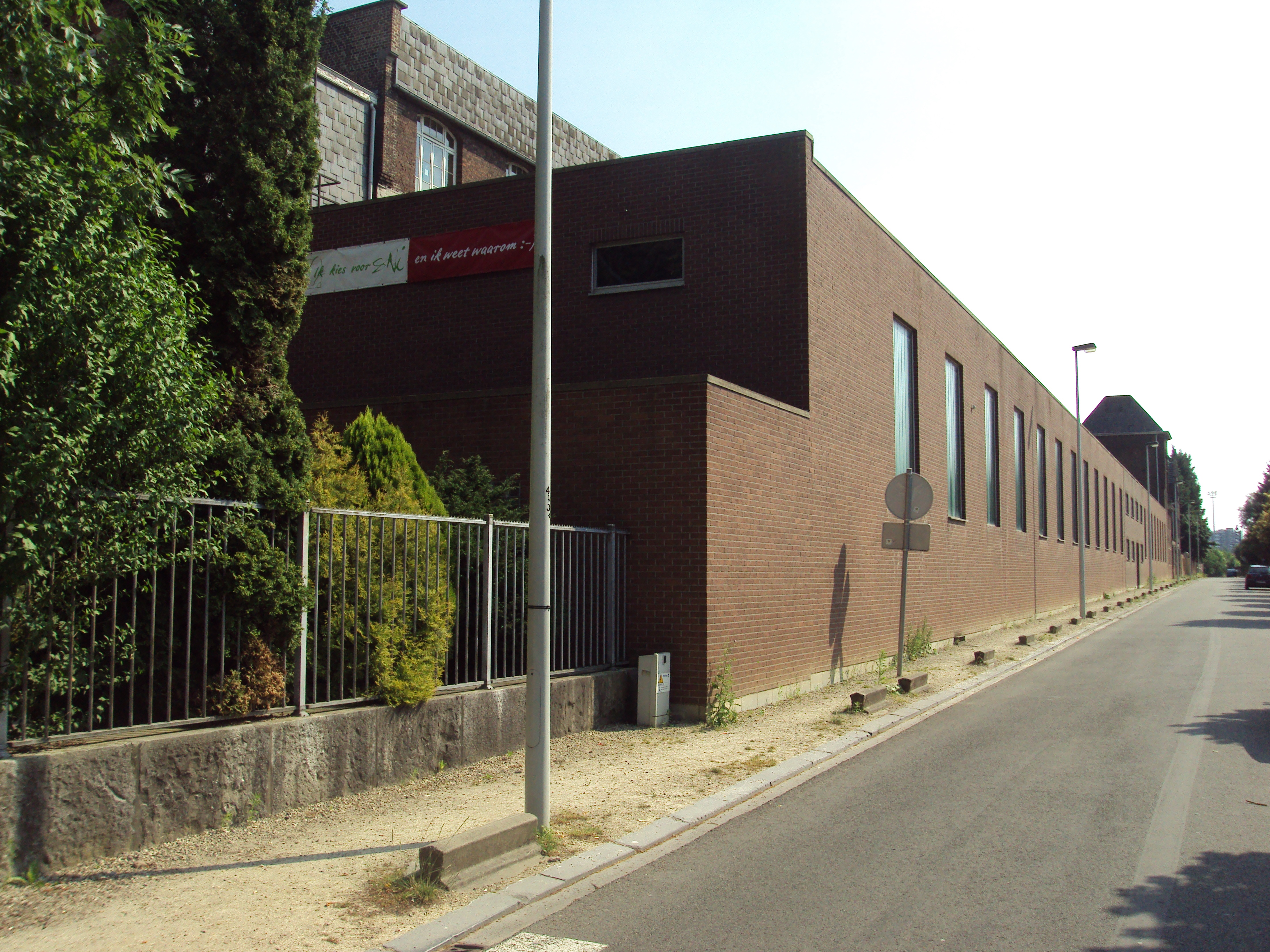 Secondary school Sint Niklaasinstituut in Anderlecht